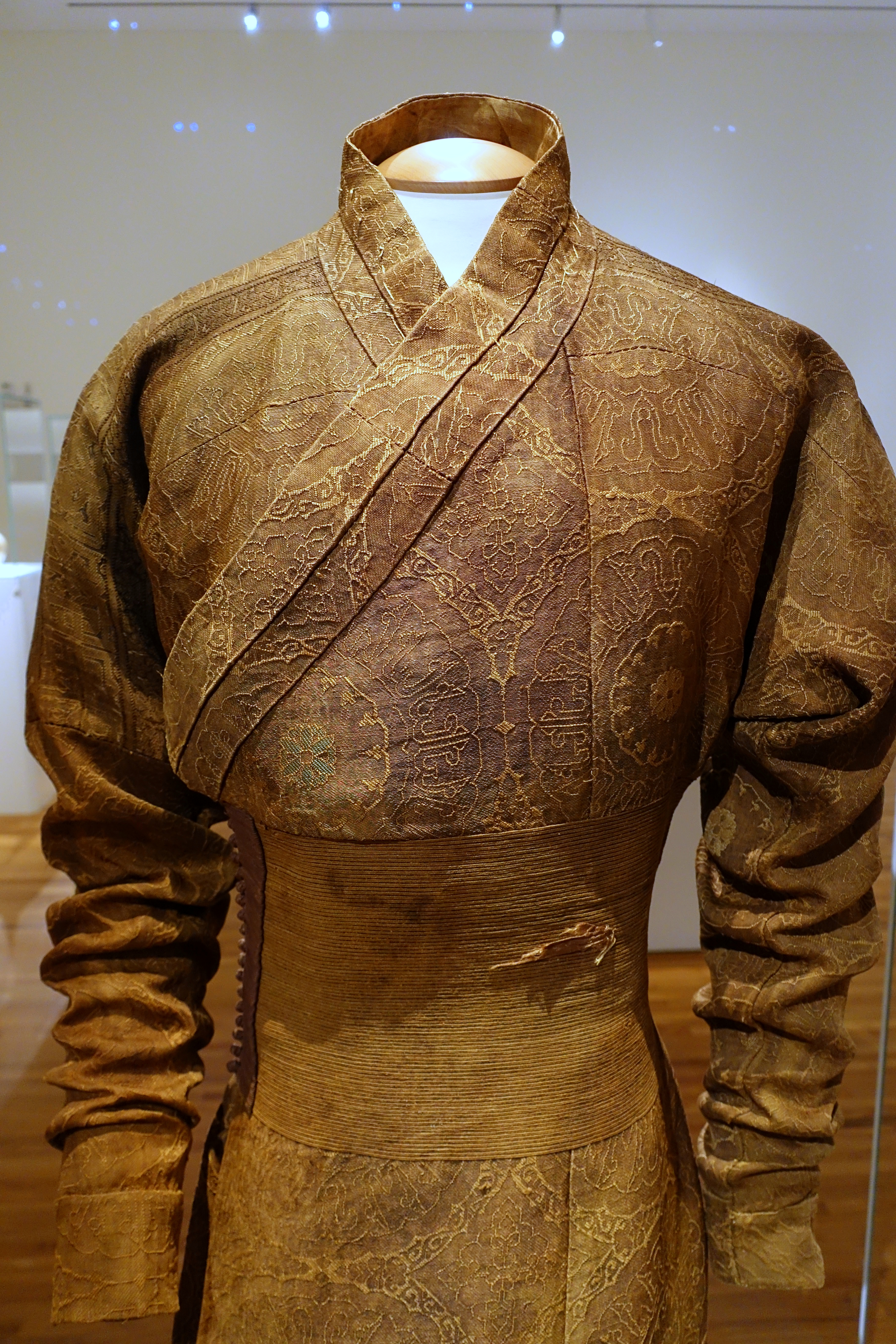 Exhibit in the Aga Khan Museum - Toronto, Canada. This work is old enough so that it is in the public domain.